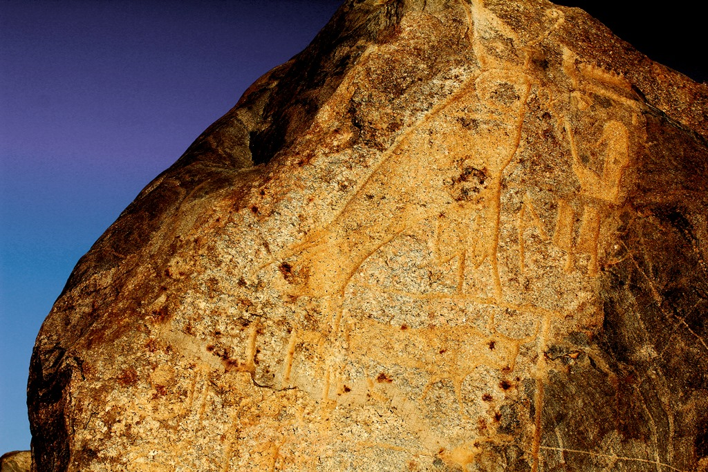 Tombos (Nubia): Inscription Horus and Maat